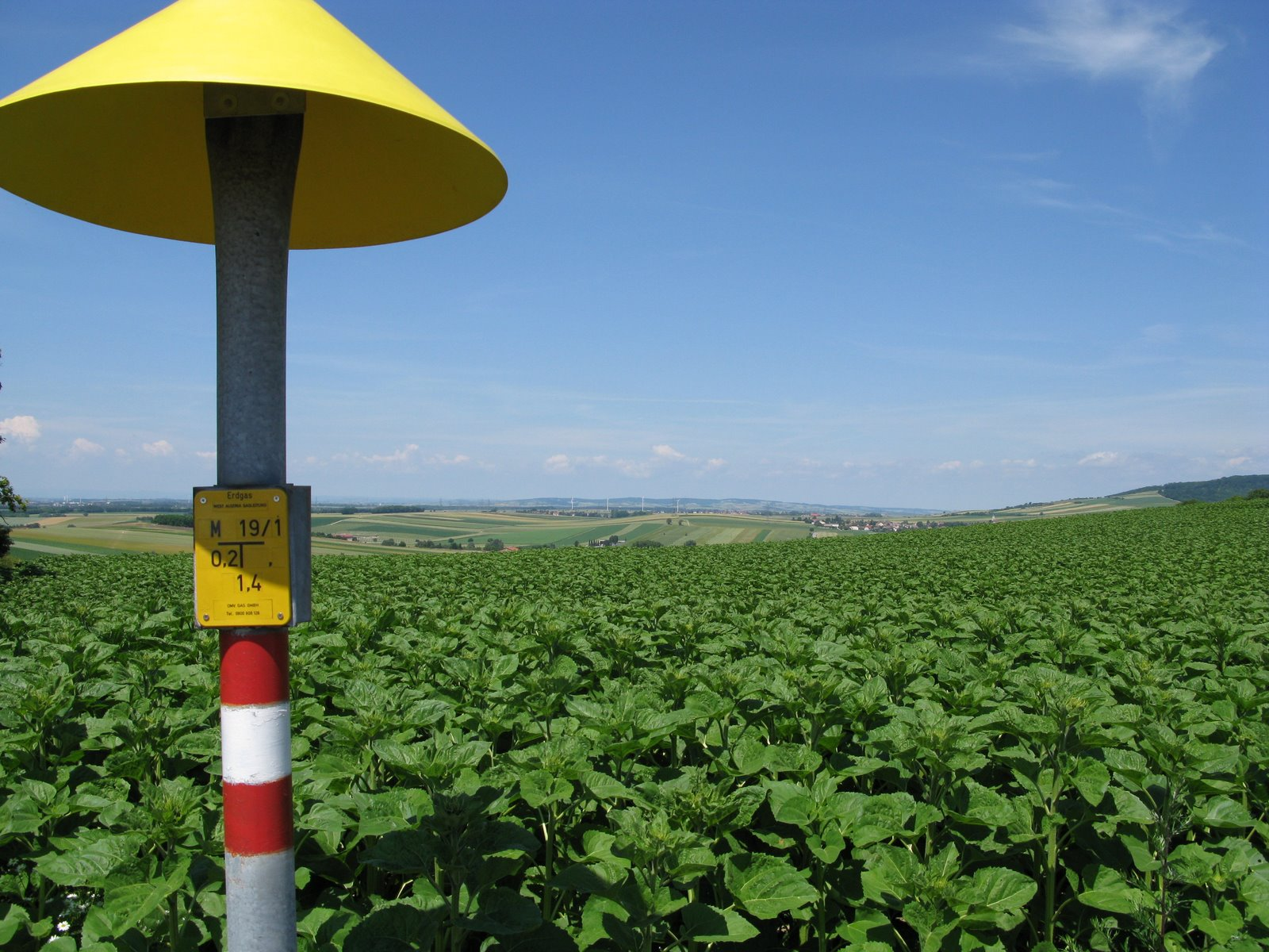 Oberrohrbach near Korneuburg / Vienna / Austria / European Union.